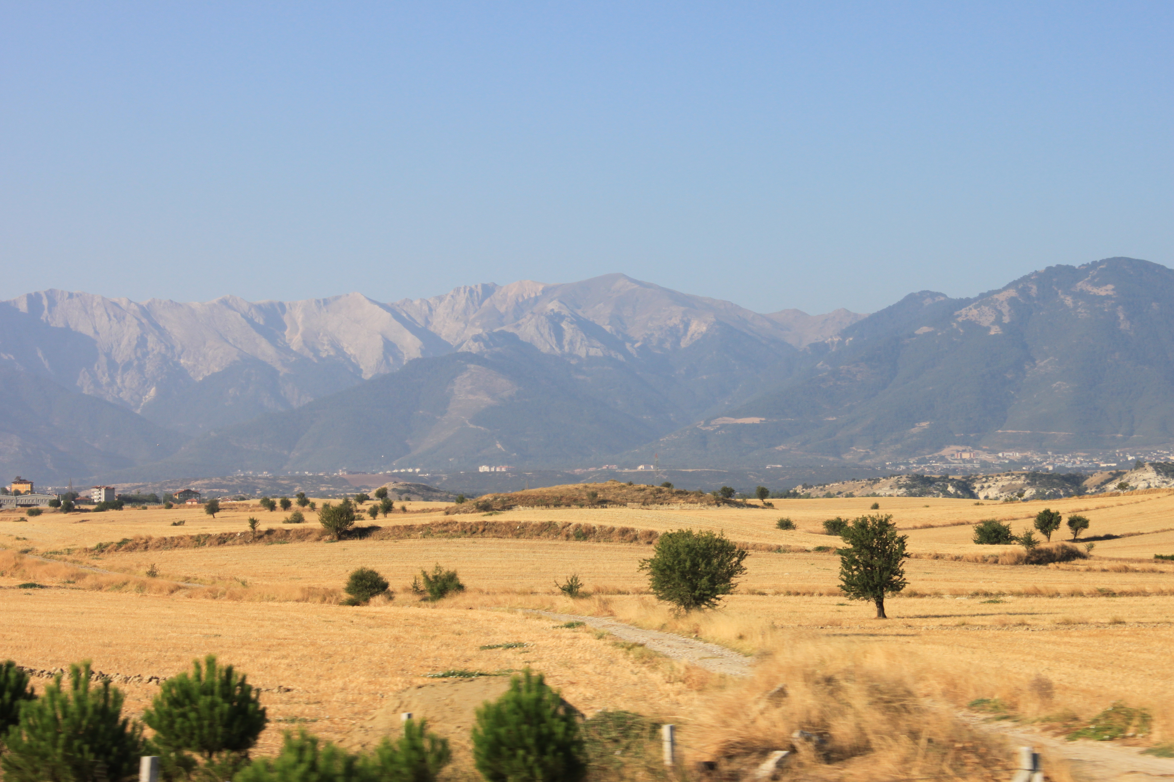 Bozkurt (Denizli), in the background Eṣler Daği (Eshler-Mountains)